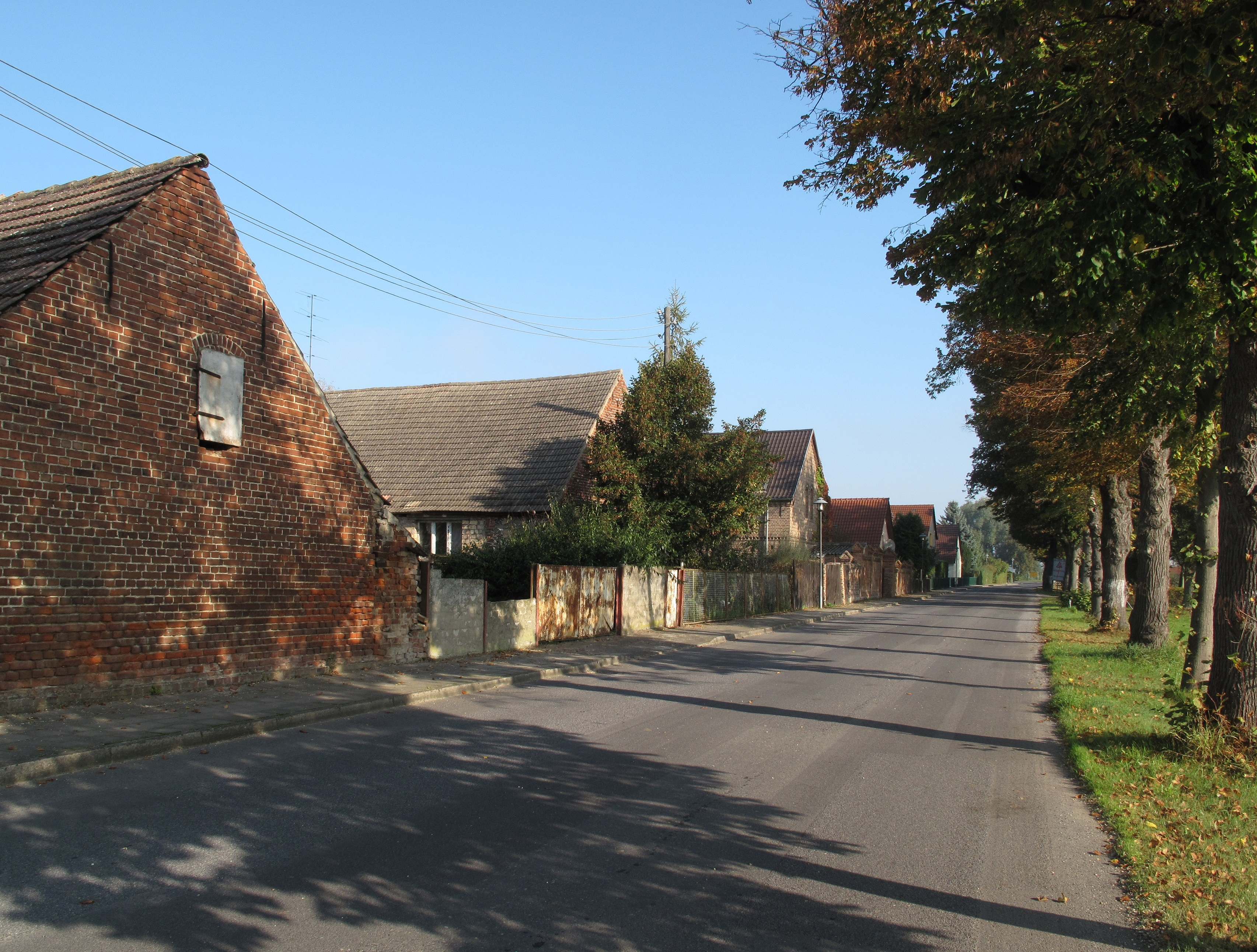 Falkenberger Hauptstraße (part of the Landesstraße No. 422) in the village Falkenberg, a part (german: Ortsteil) of the municipality Tauche in the District Oder-Spree, Brandenburg, Germany.